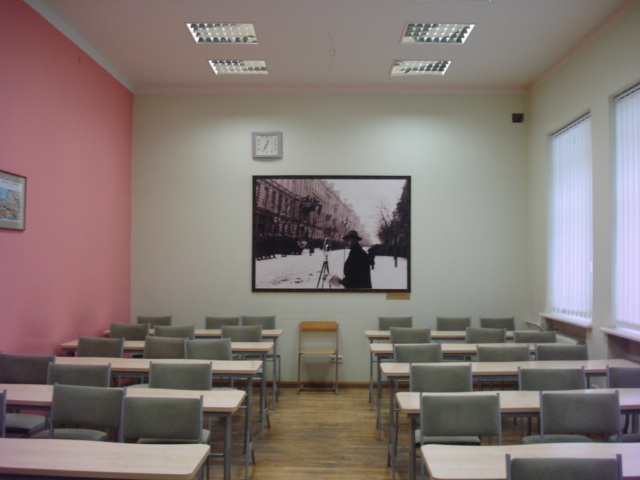 "Vilniaus balsas" auditorium at Institute of Journalism of Vilnius University Faculty of Communication